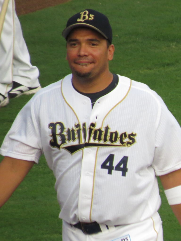 José Fernández, infielder of the Orix Buffaloes, at Kobe Sports Park Baseball Stadium.